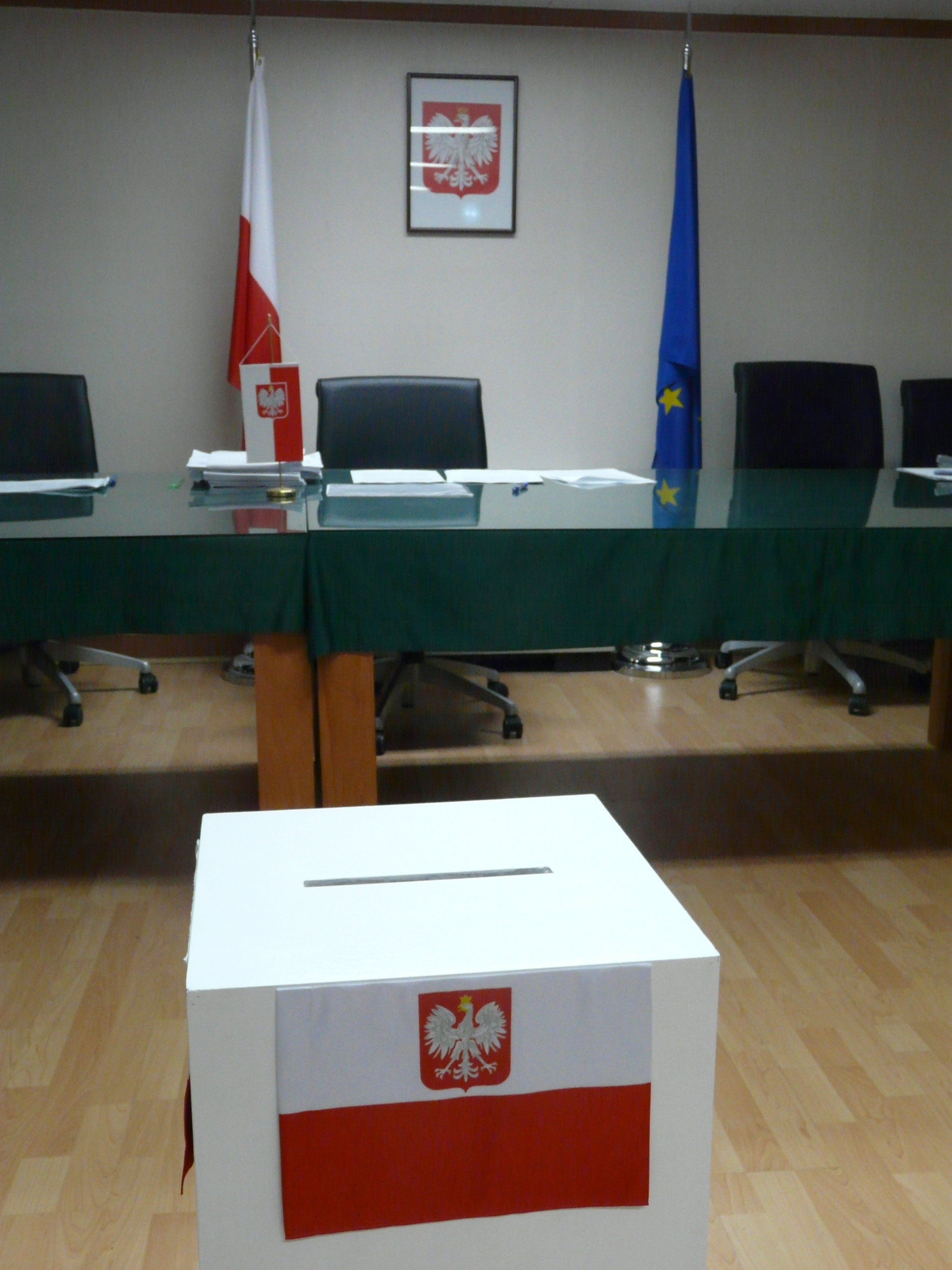 Voting booth in the Polish embassy in Seoul. European Parliament election, 2014.